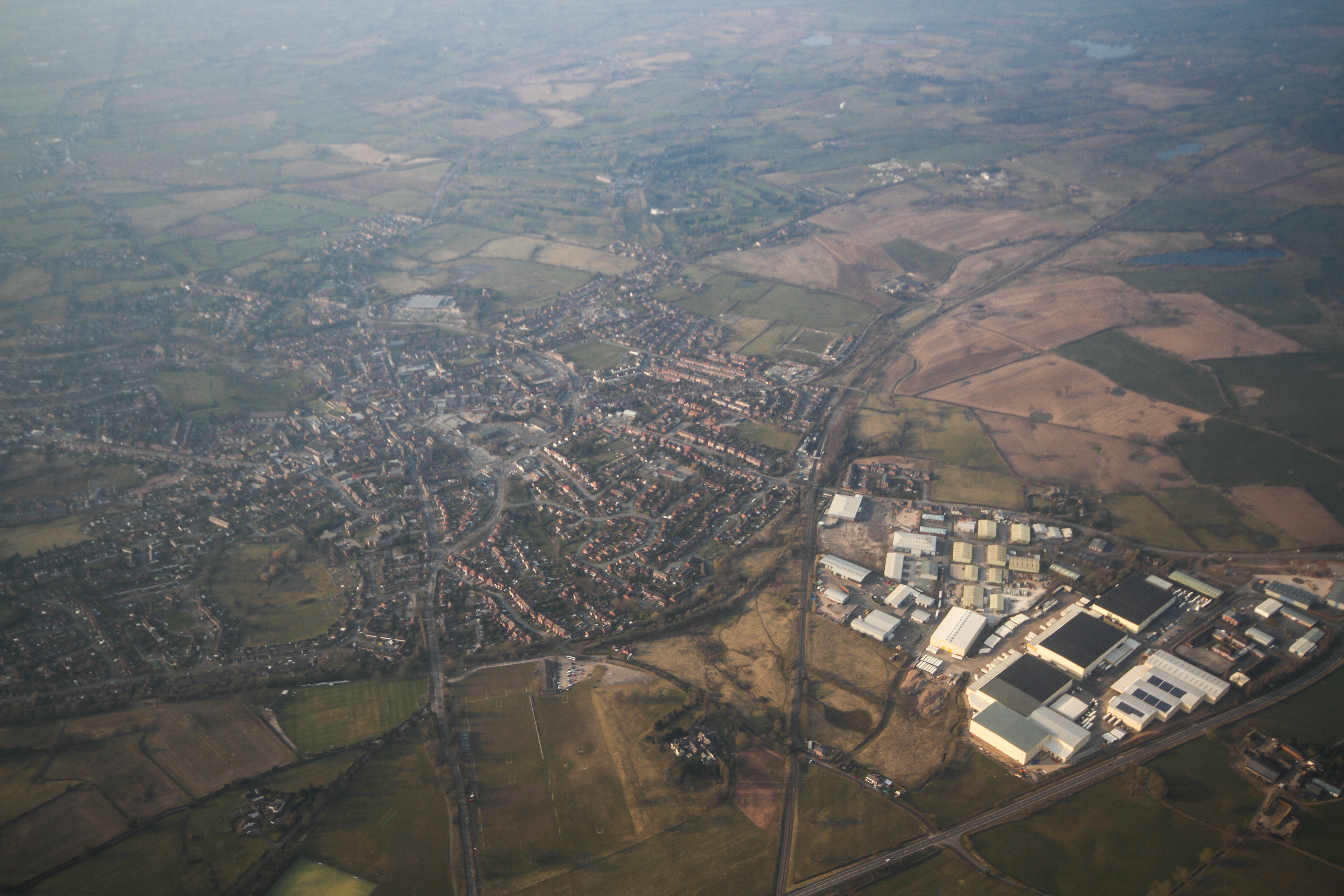 Hot Air Balloon Flight - Whitchurch